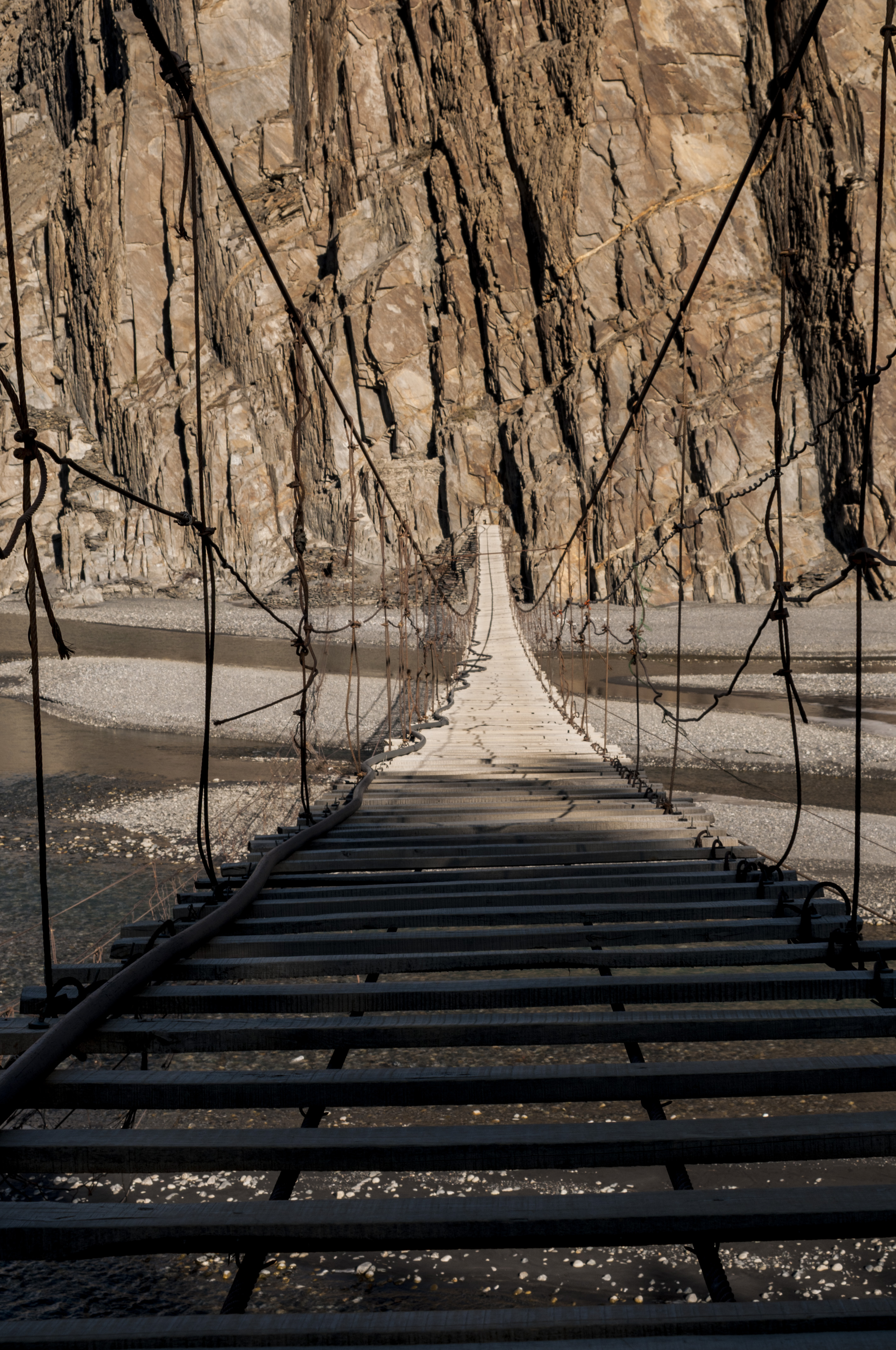 Hussaini bridge, as seen from the side that connects Hussaini village.